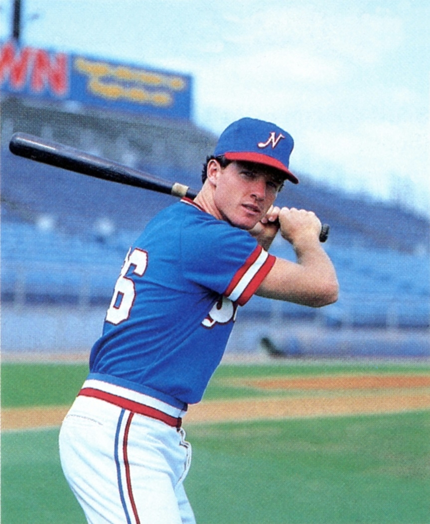 Catcher Scott Bradley of the 1983 Nashville Sounds Minor League Baseball team of the Southern League